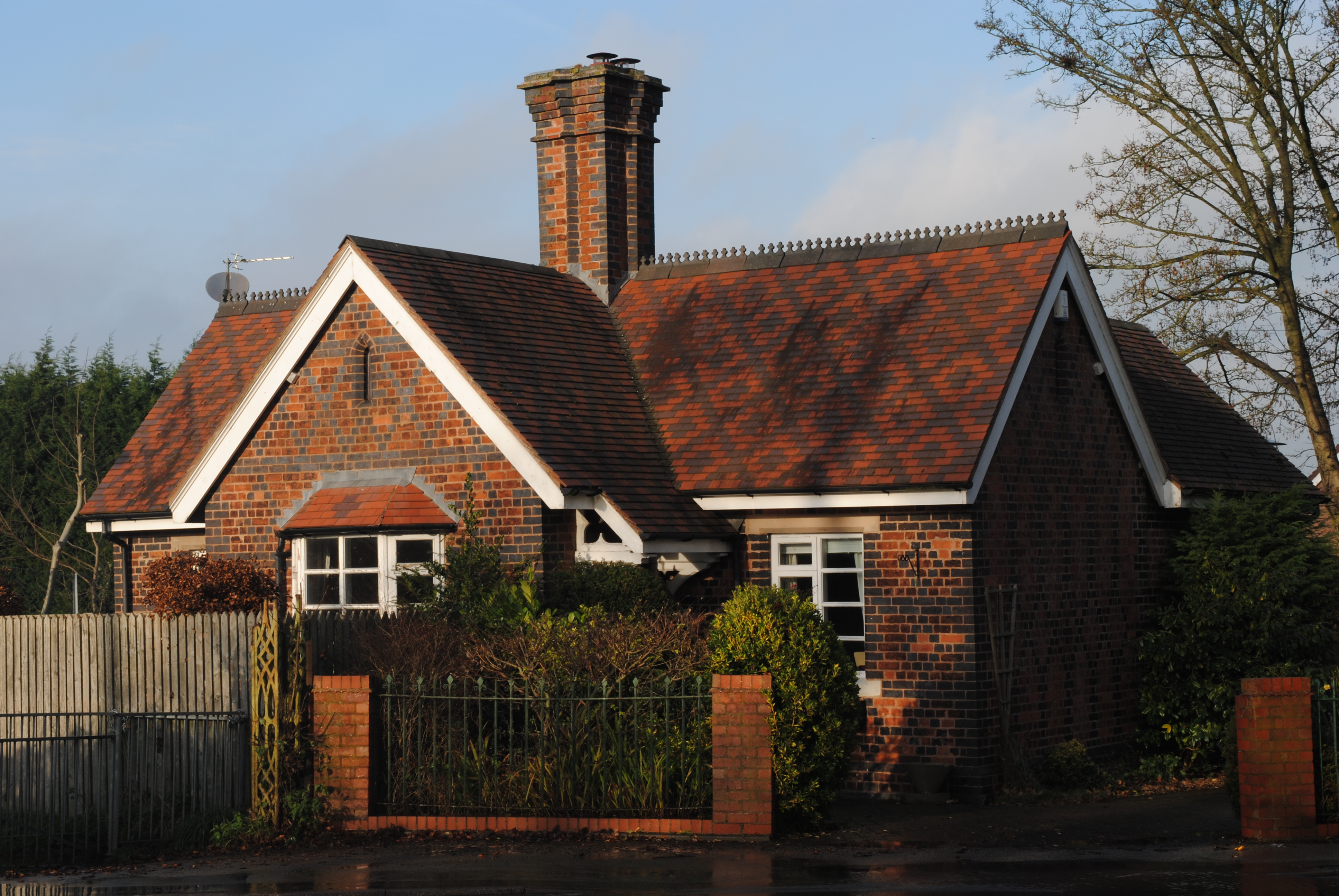 Avenue Lodge, Chapel Lane, Great Barr, Walsall, England. One of the lodge houses for Great Barr Hall.